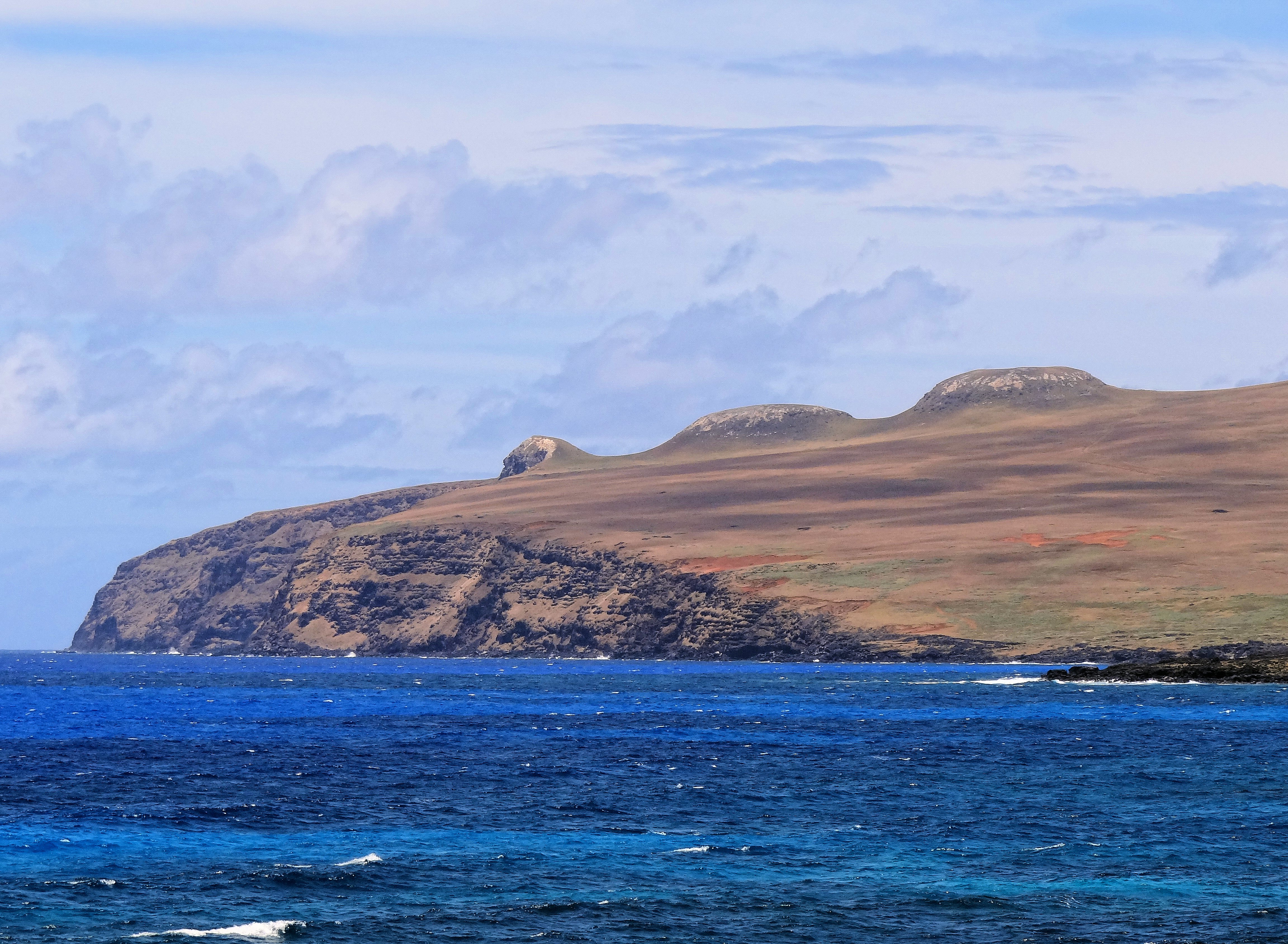 The northern part of Poike seen from the west. Poike is an extinct volcano on Easter Island, Chile.